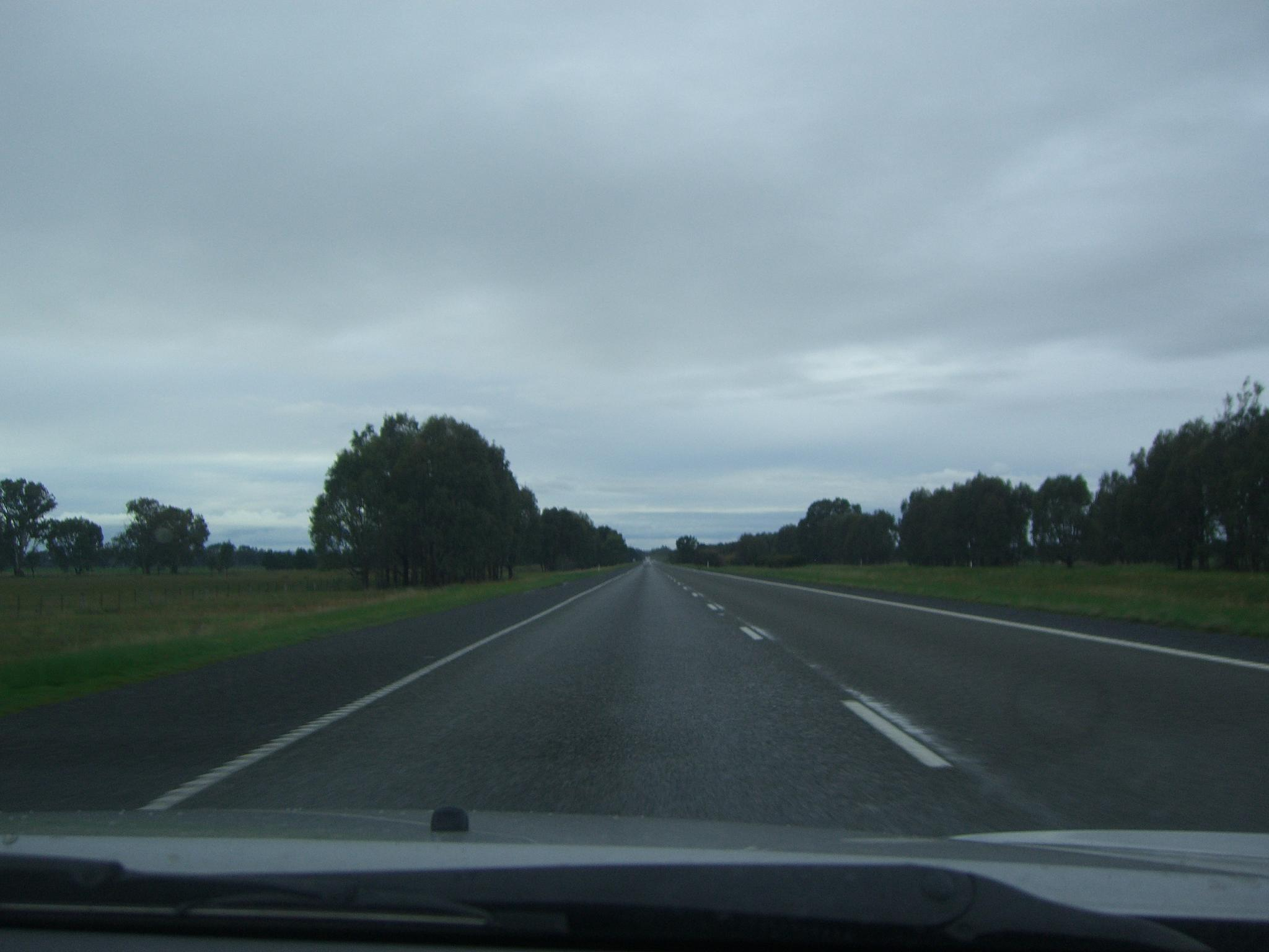 110 kmh on the M31 Hume Freeway before Wangaratta